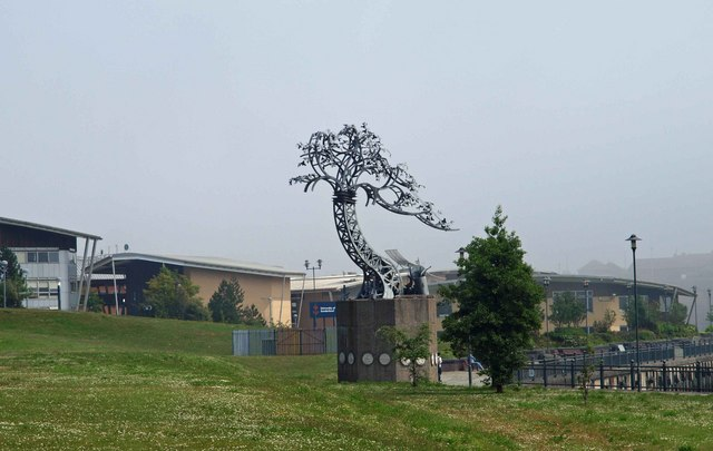 Tree sculpture on entering St Peter's Campus Sunderland University.